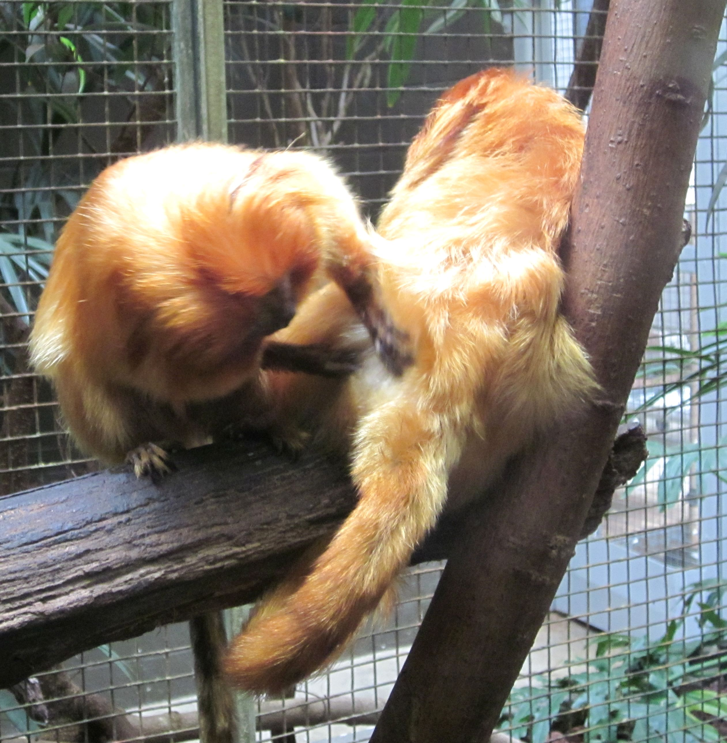 Two lion tamarins: a tamarin is grooming the other.